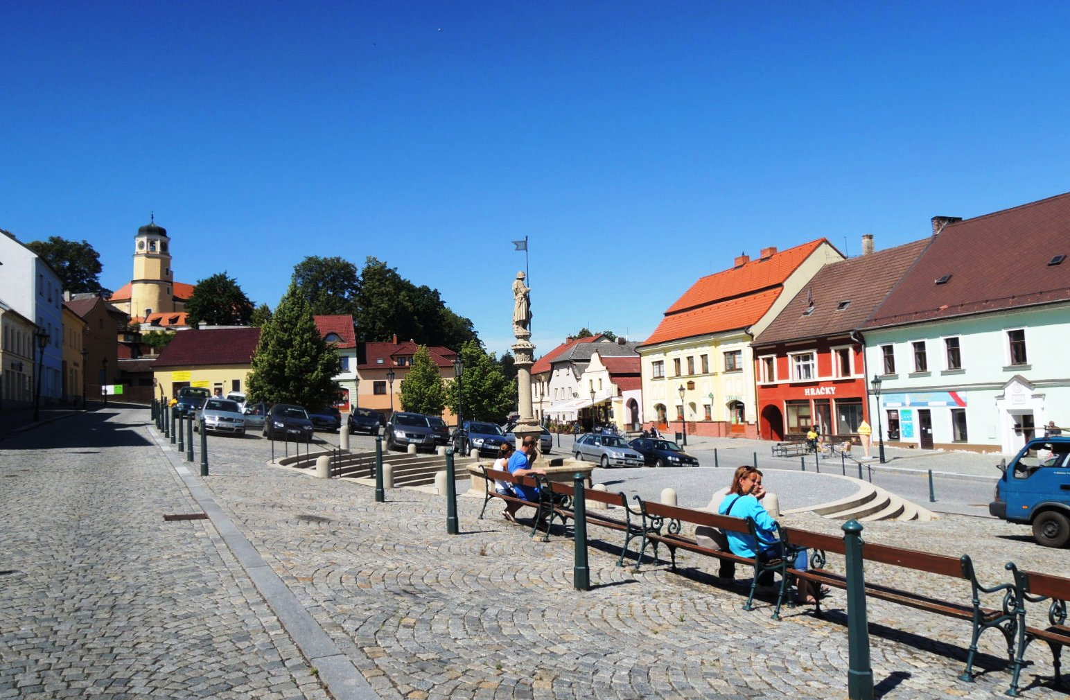 Vlašim, Žižka square from NE